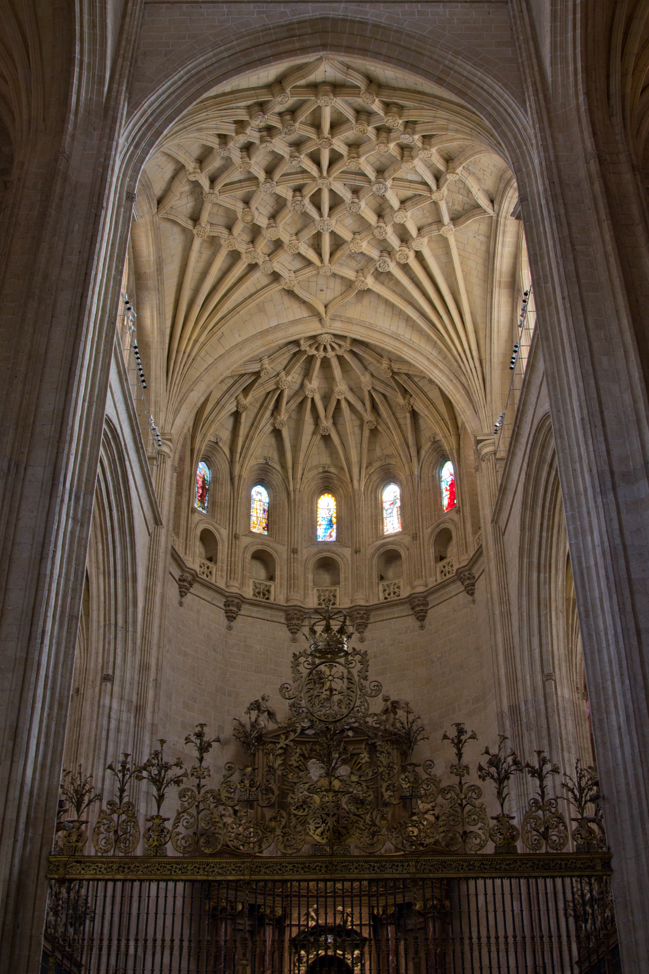 cathedral of St. Mary, Segovia, Spain.